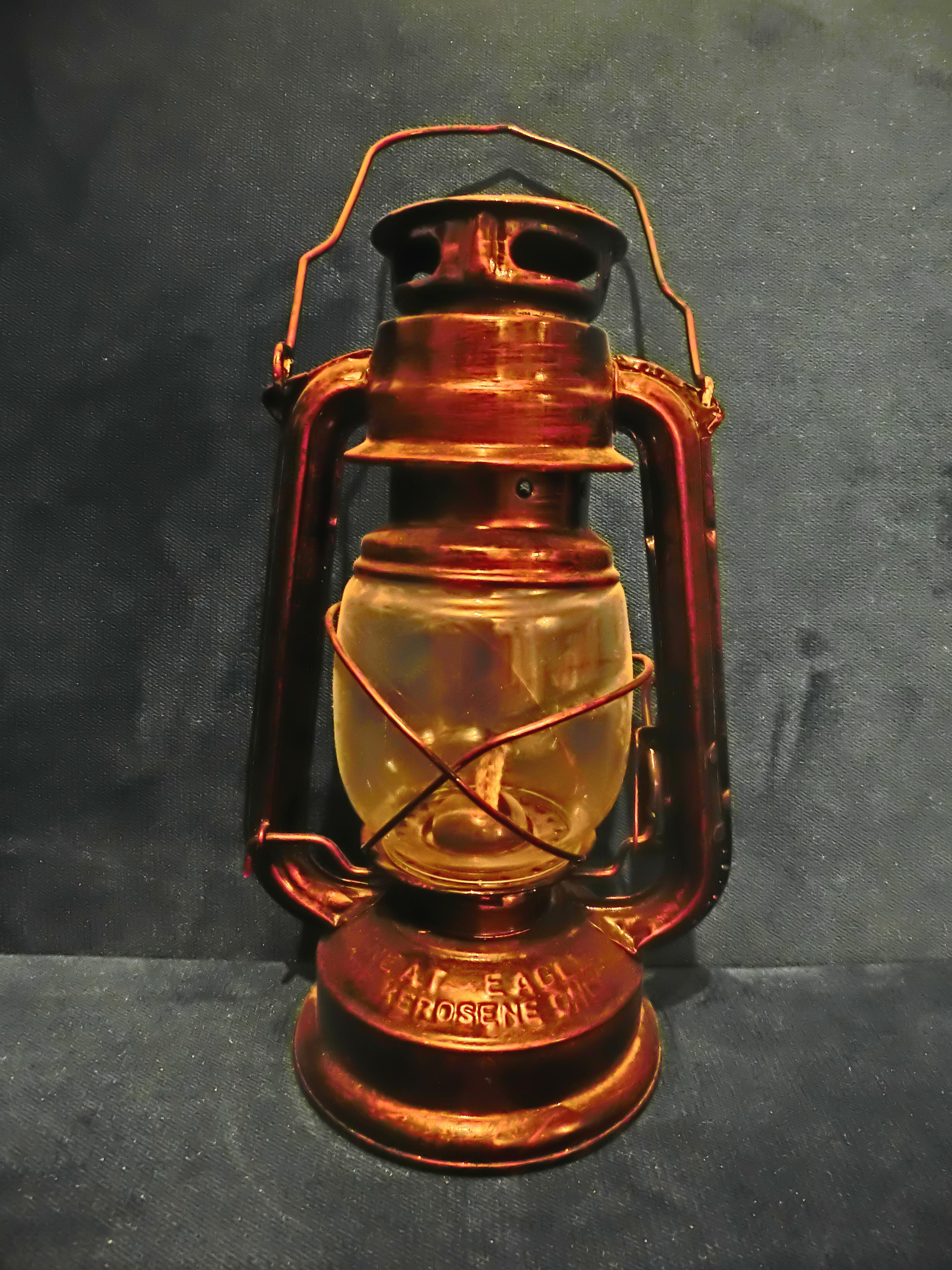 A photo taken by HDR technology (HDR ART function), by Casio Exilim camera.